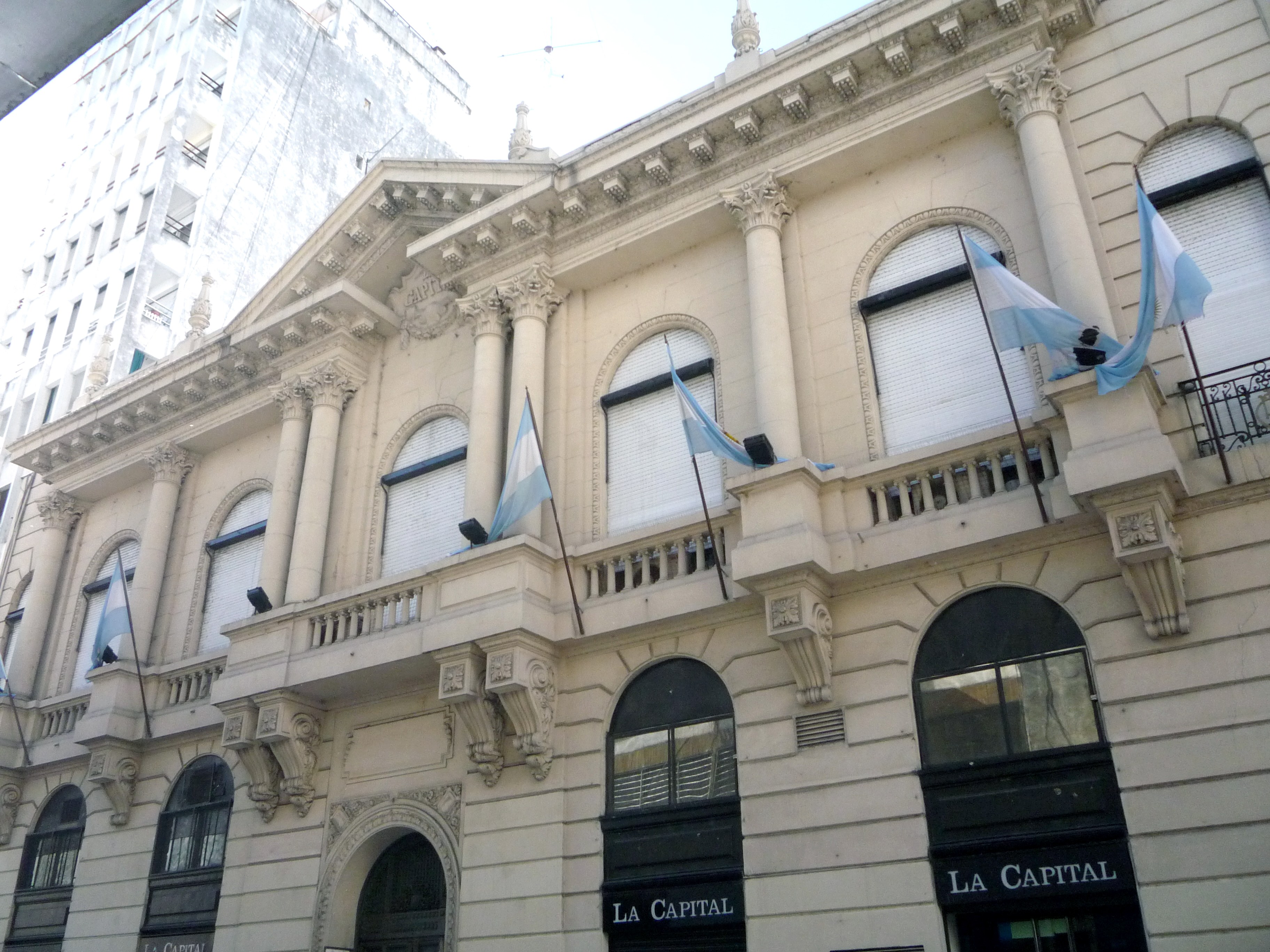 Facade of Diario La Capital building in Rosario, Argentina